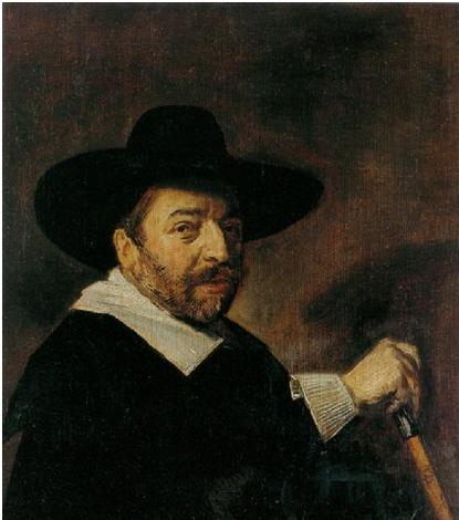 Holland, signed FH and dated on the cane, 1643 Paintings Oil on panel 31.7 by 27.2 cm This image is available from the Netherlands Institute for Art Historyunder digital ID 9741. This tag does not indicate the copyright status of the attached work. A normal copyright tag is still required. See Commons:Licensing.